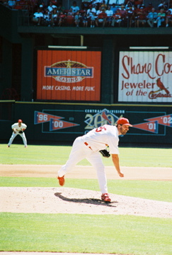 St. Louis Cardinals pitcher Matt Morris in 2005.